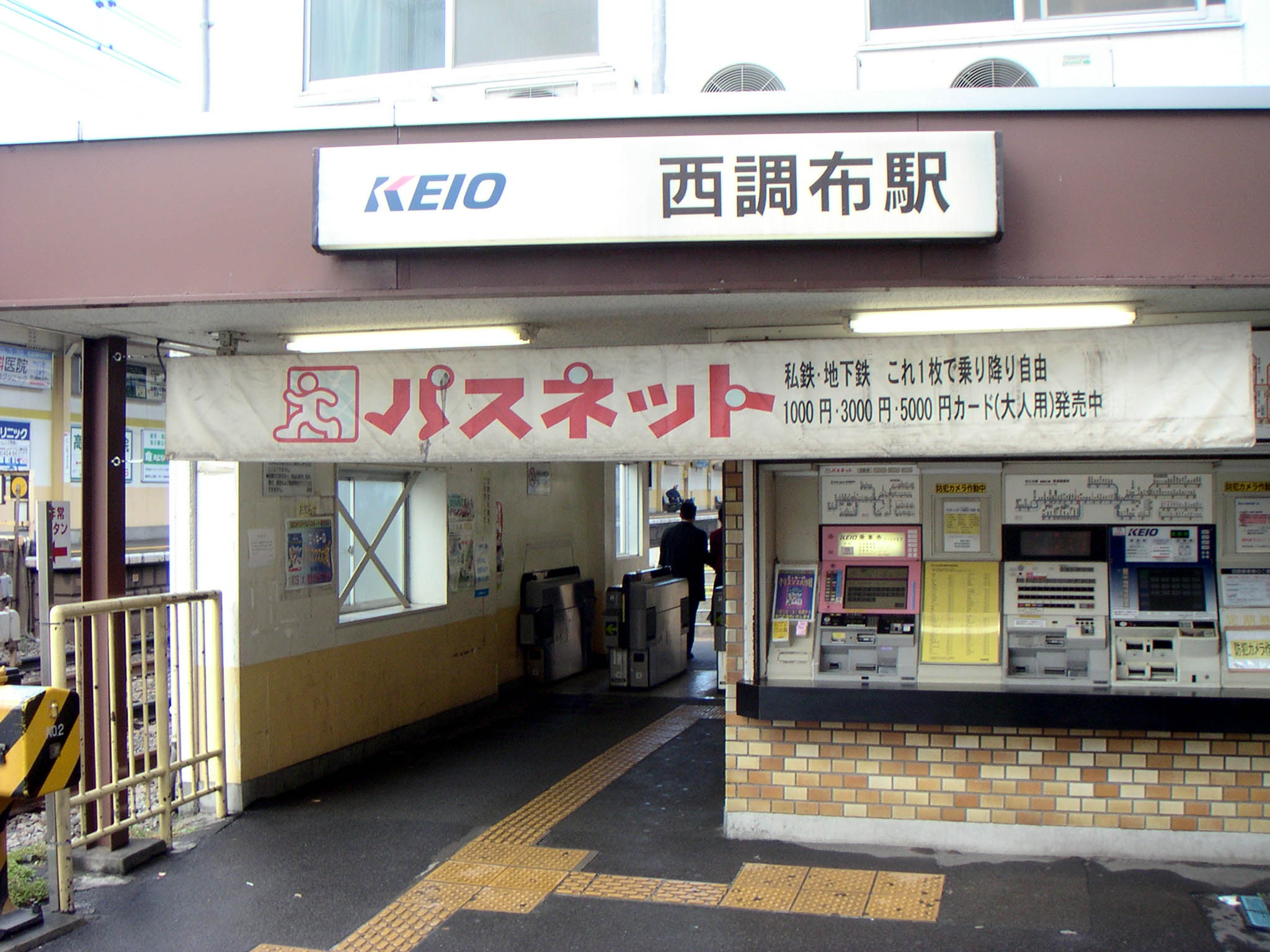 North exit of Nishichōfu Station, Keio Line, Tokyo, Japan